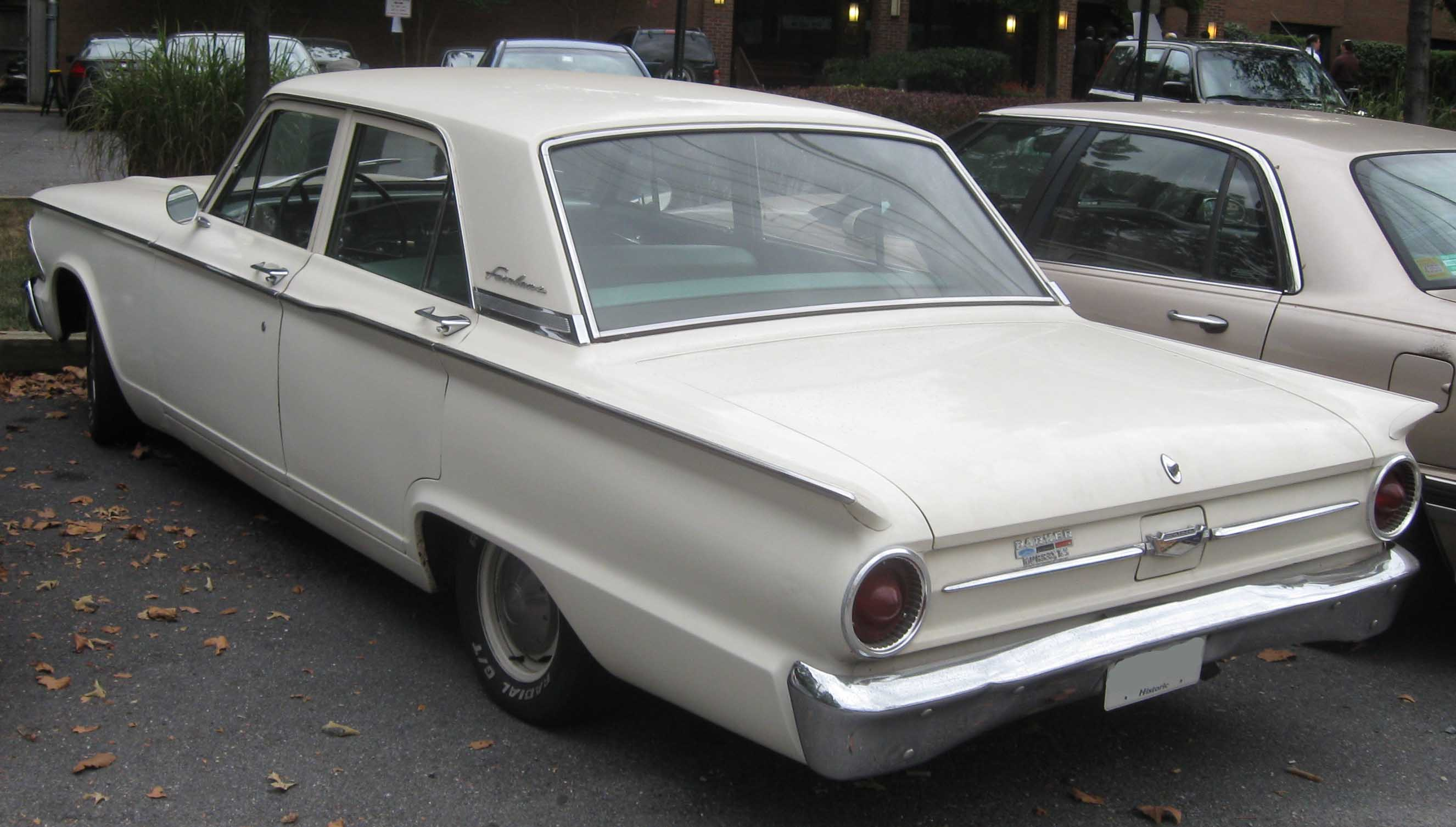 Ford Fairlane photographed in College Park, Maryland, USA.